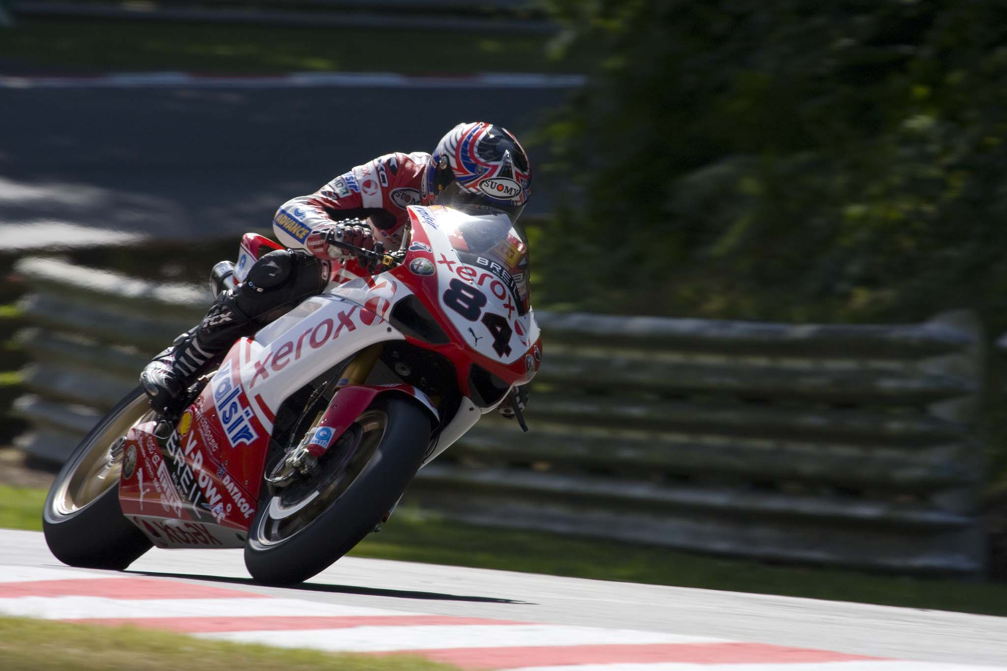 The italian racer Michel Fabrizio